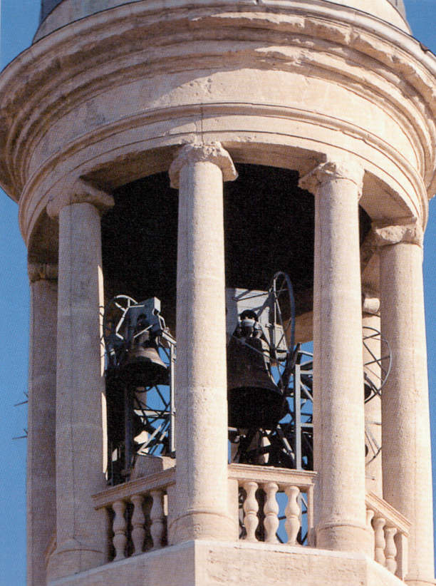 The bells Tower of S. Massimo all'Adige